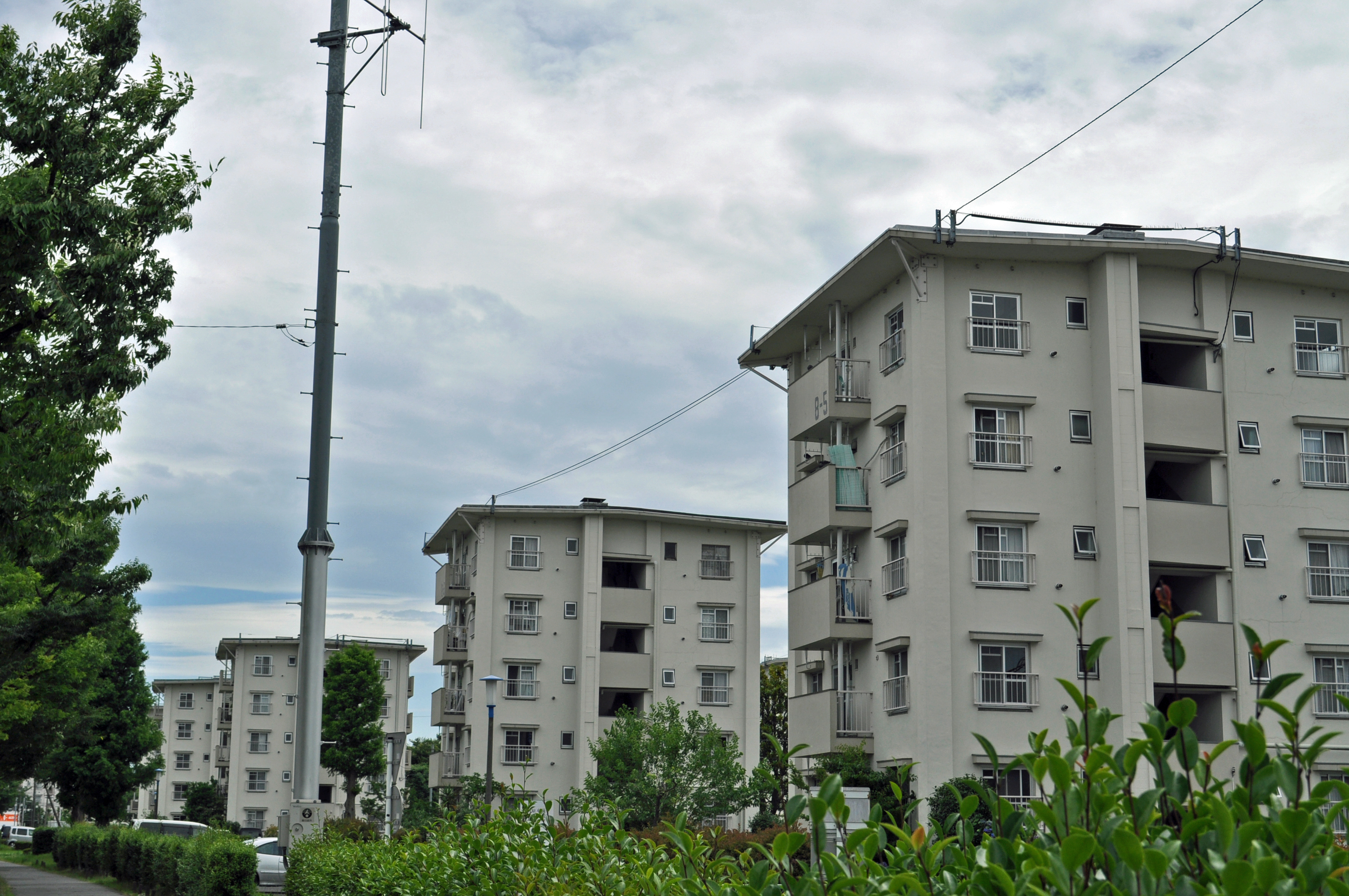 Takesato Danchi ("Takesato apartment houses complex") in Kasukabe City, Saitama Prefecture, Japan